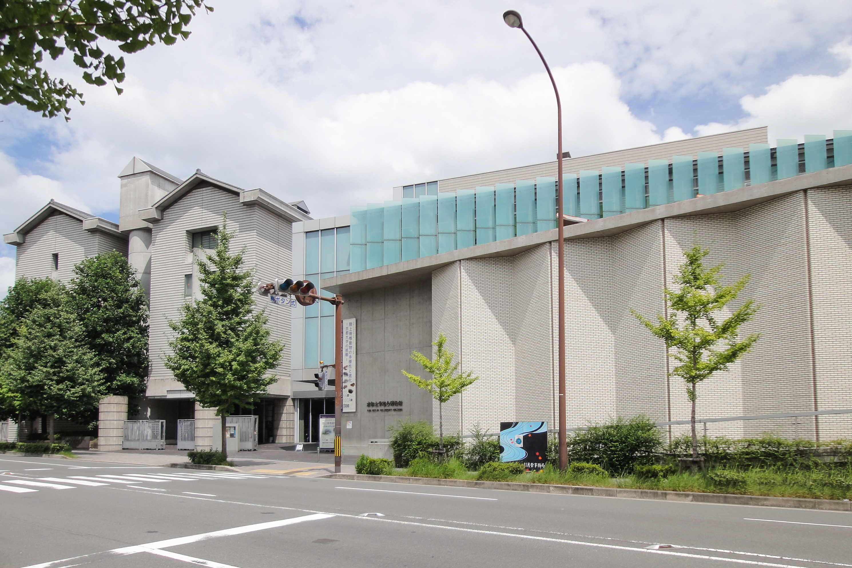 Photograph of the Kyoto University Museum in the Yoshida Campus of Kyoto University, Sakyo-ku, Kyoto, Kyoto Prefecture, Japan.